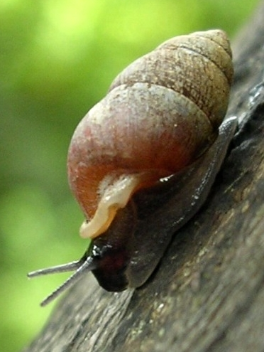 Pupinella rufa (Sowerby, 1864) (Gastropoda: Architaenioglossa: Cyclophoroidea: Pupinidae). Locality: Tokyo, Japan.